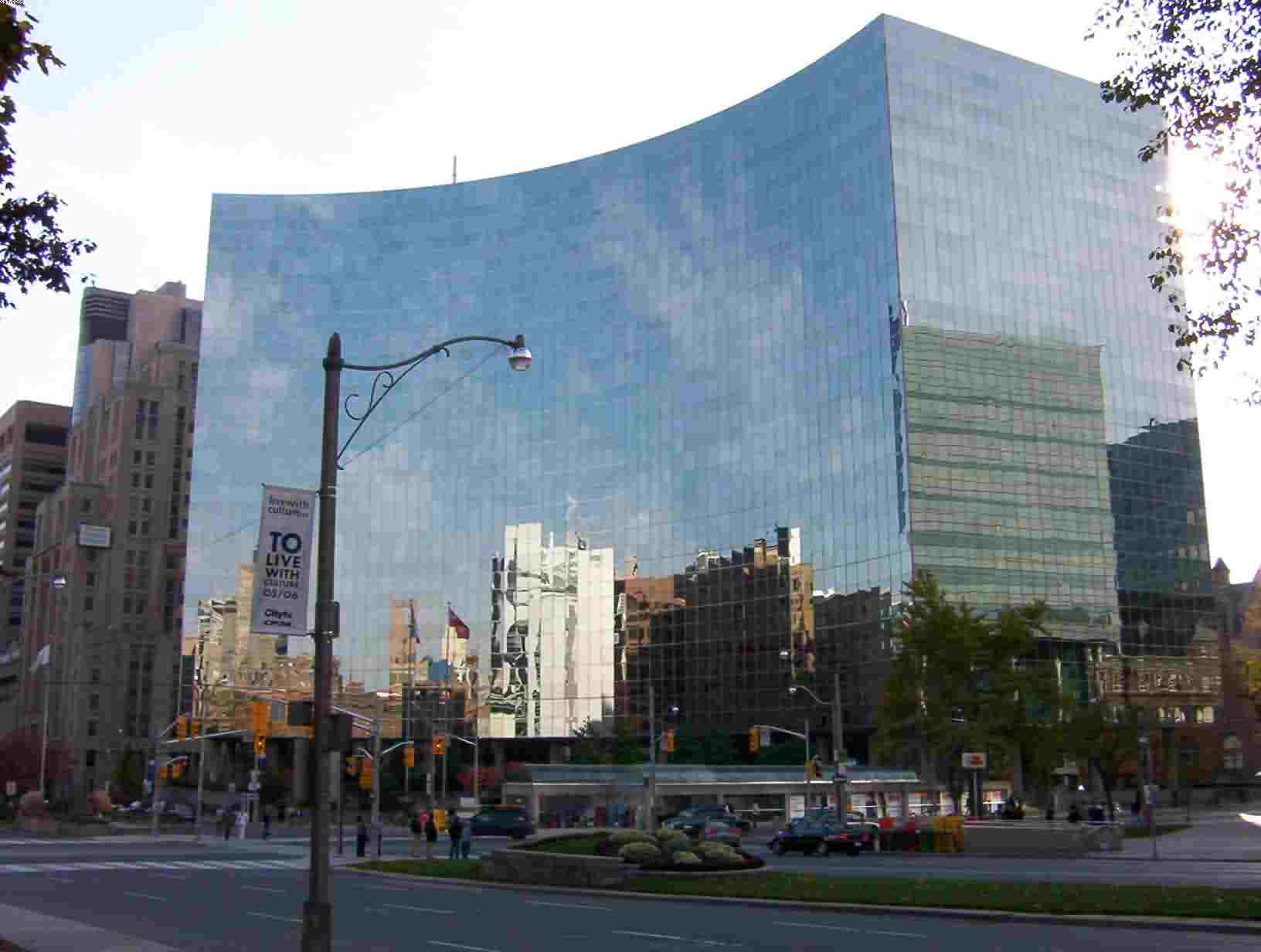 OPG/Ontario Hydro Building in Toronto